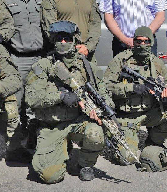 YAMAM - Israeli elite counter-terrorism unit